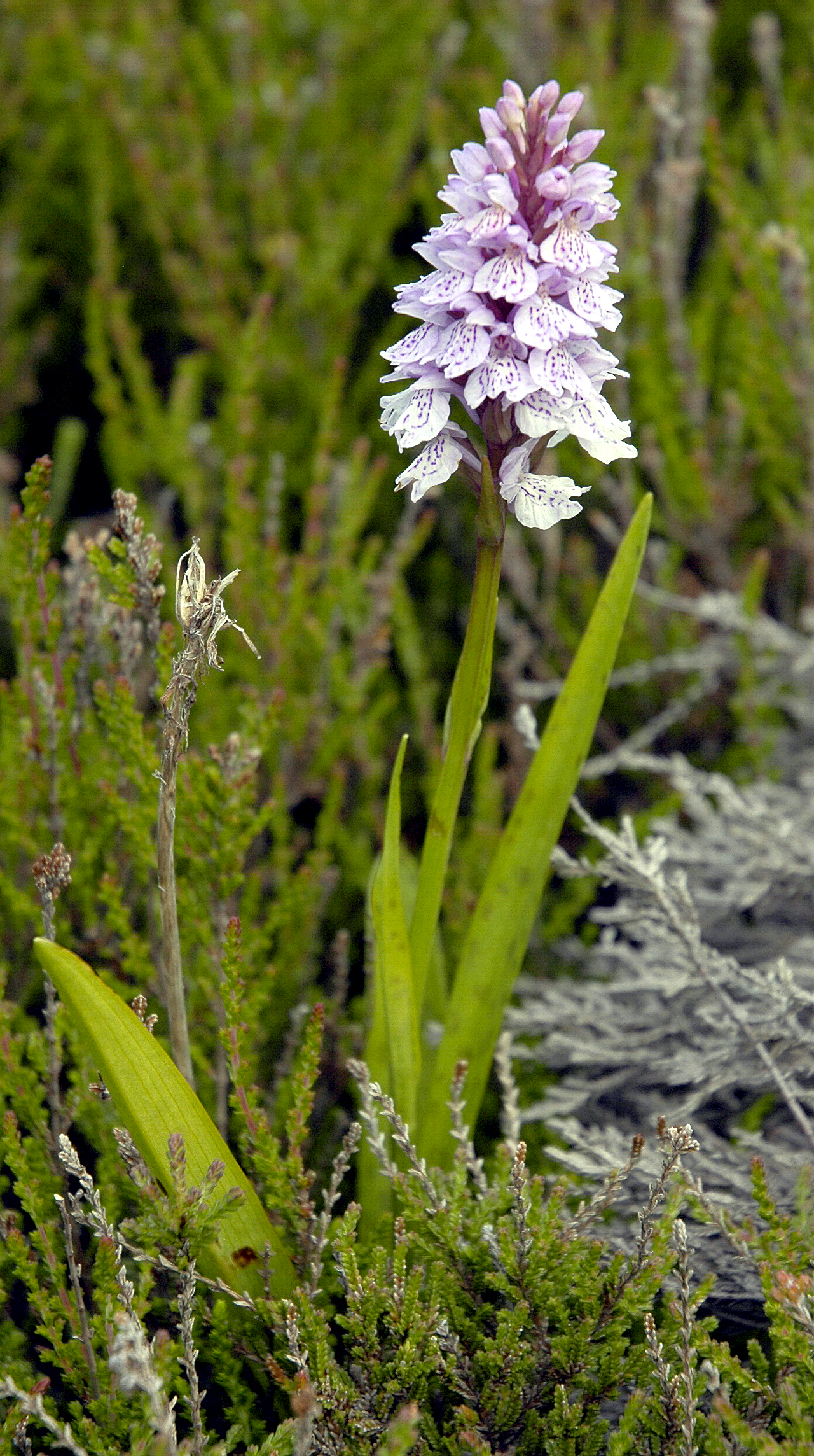 Dactylorhiza maculata near the sea in the southern part of Norway (Lillesand)